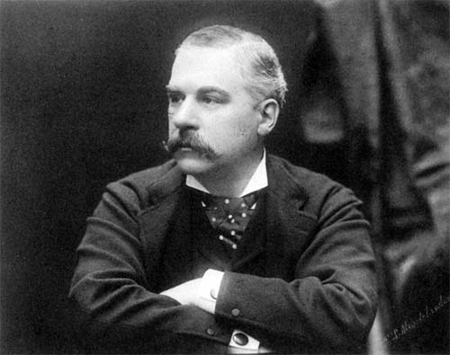 John Pierpont J. P. Morgan, American financier, banker and philantropist